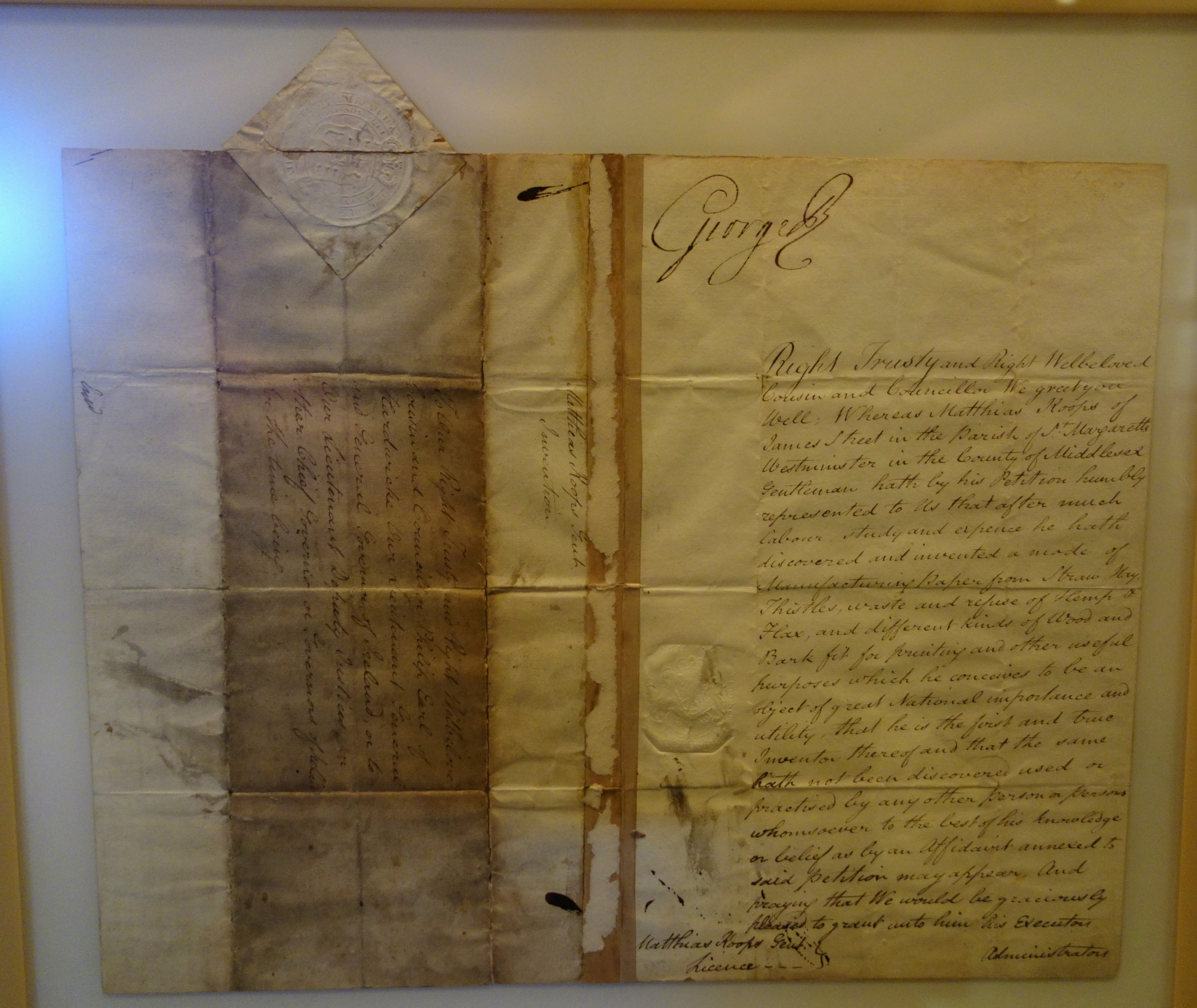 Exhibit in the Robert C. Williams Paper Museum, Atlanta, Georgia, USA. This work is old enough so that it is in the public domain.